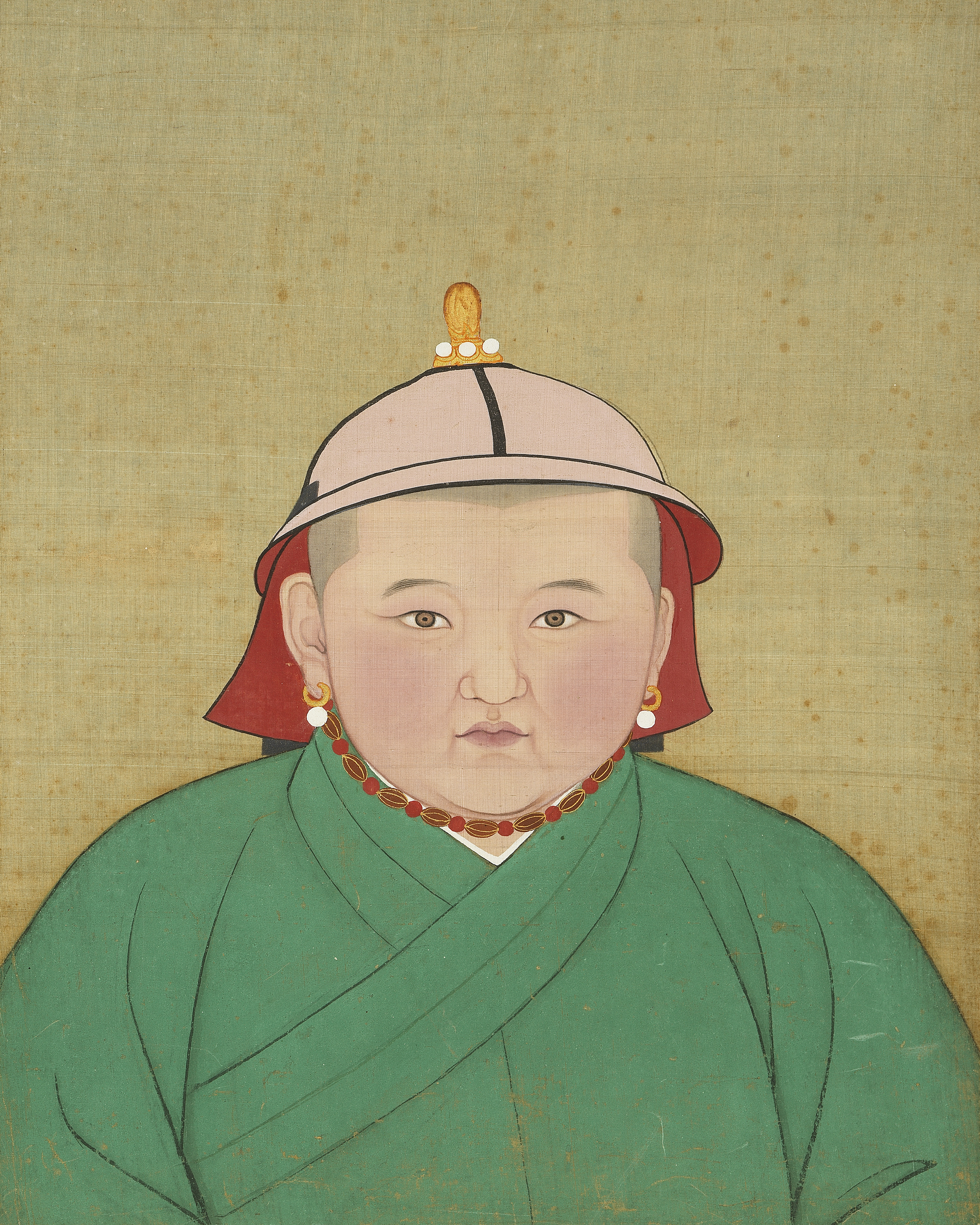 Ningzong, a.k.a. Irinchinbal. Portrait cropped out of a page from an album depicting several Yuan emperors (Yuandai di banshenxiang), now located in the National Palace Museum in Taipei (inv. nr. zhonghua 000324). Original size is 47 cm wide and 59.4 cm high. Paint and ink on silk. For the full page, see Image:YuanEmperorAlbumIrinchinbalFull.jpg.